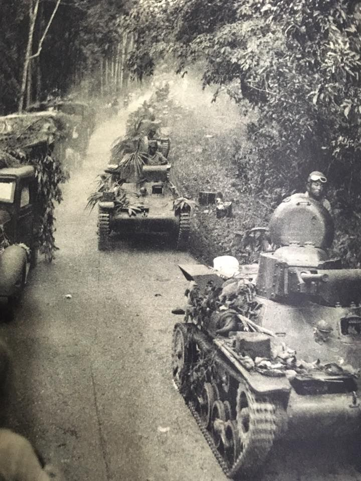 Japanese Type 97 Te-Ke tanks followed by their bicycle infantry behind during the Battle of Kampar in Perak.